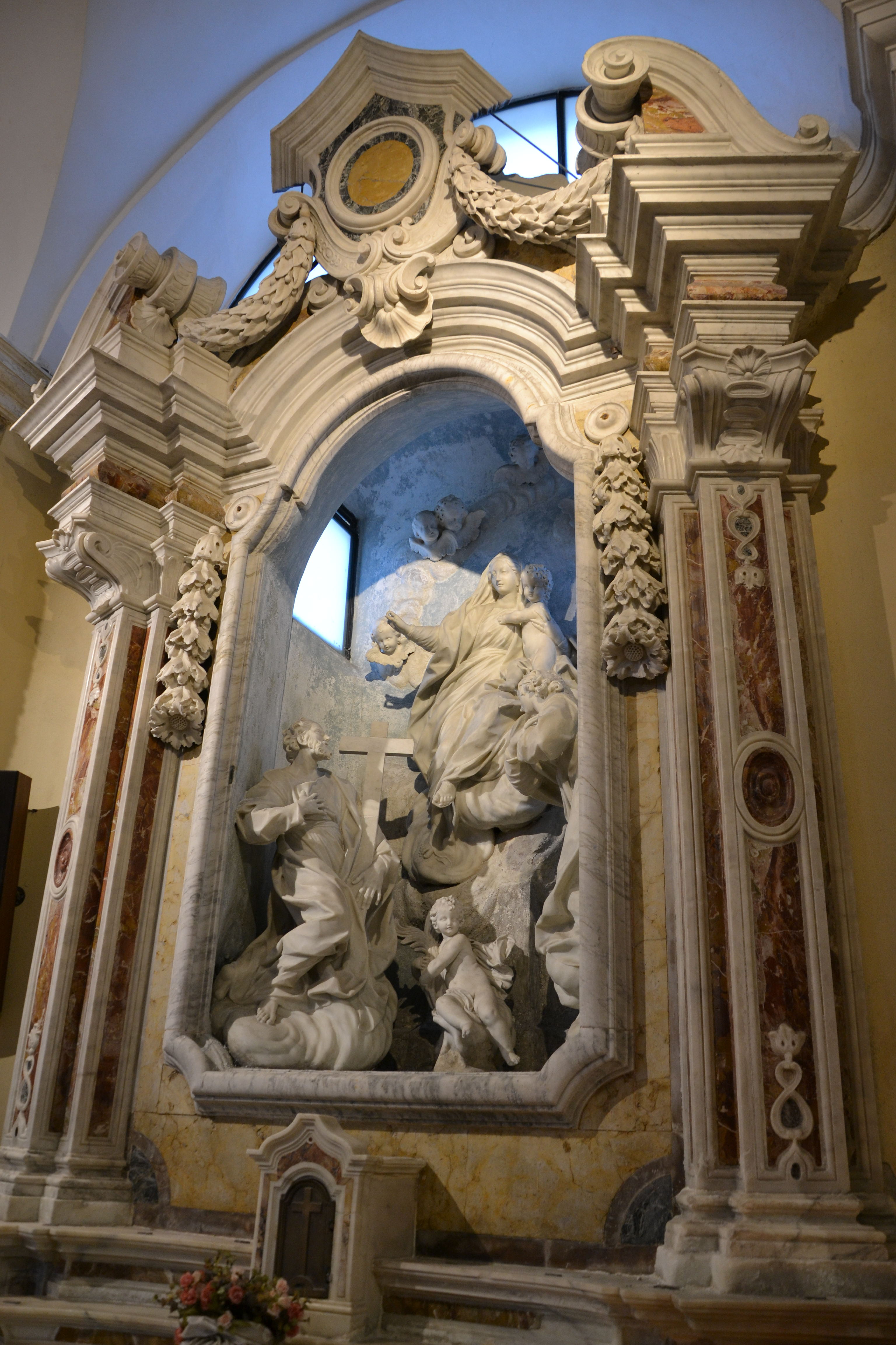 Holy Virgin and saints Nazario e Celso, marble by Francesco Maria Schiaffino (1735), church of San Marco al Molo (Genoa)